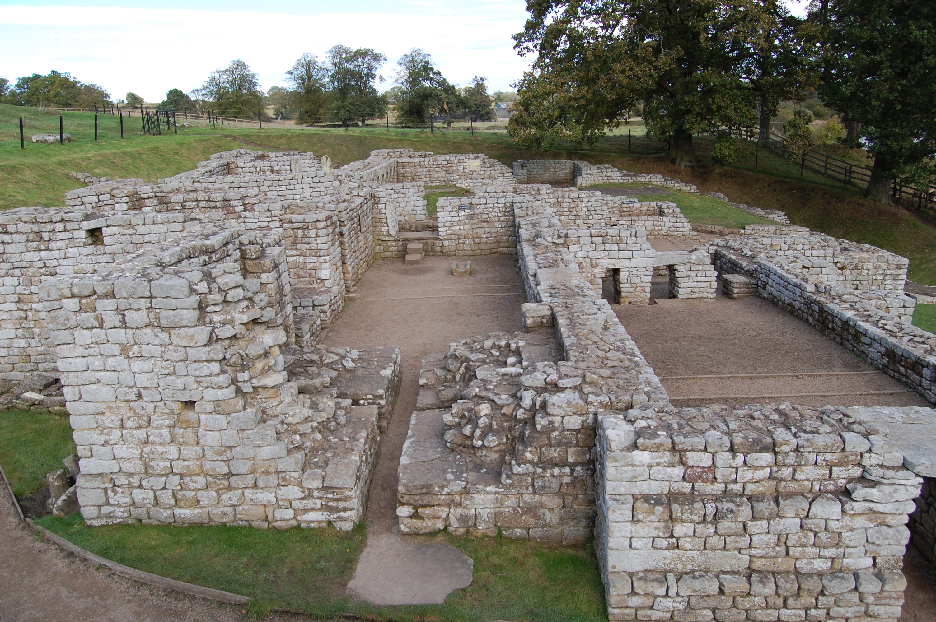 Ruins of Bath house at Chesters Roman Fort, along Hadrian's Wall.